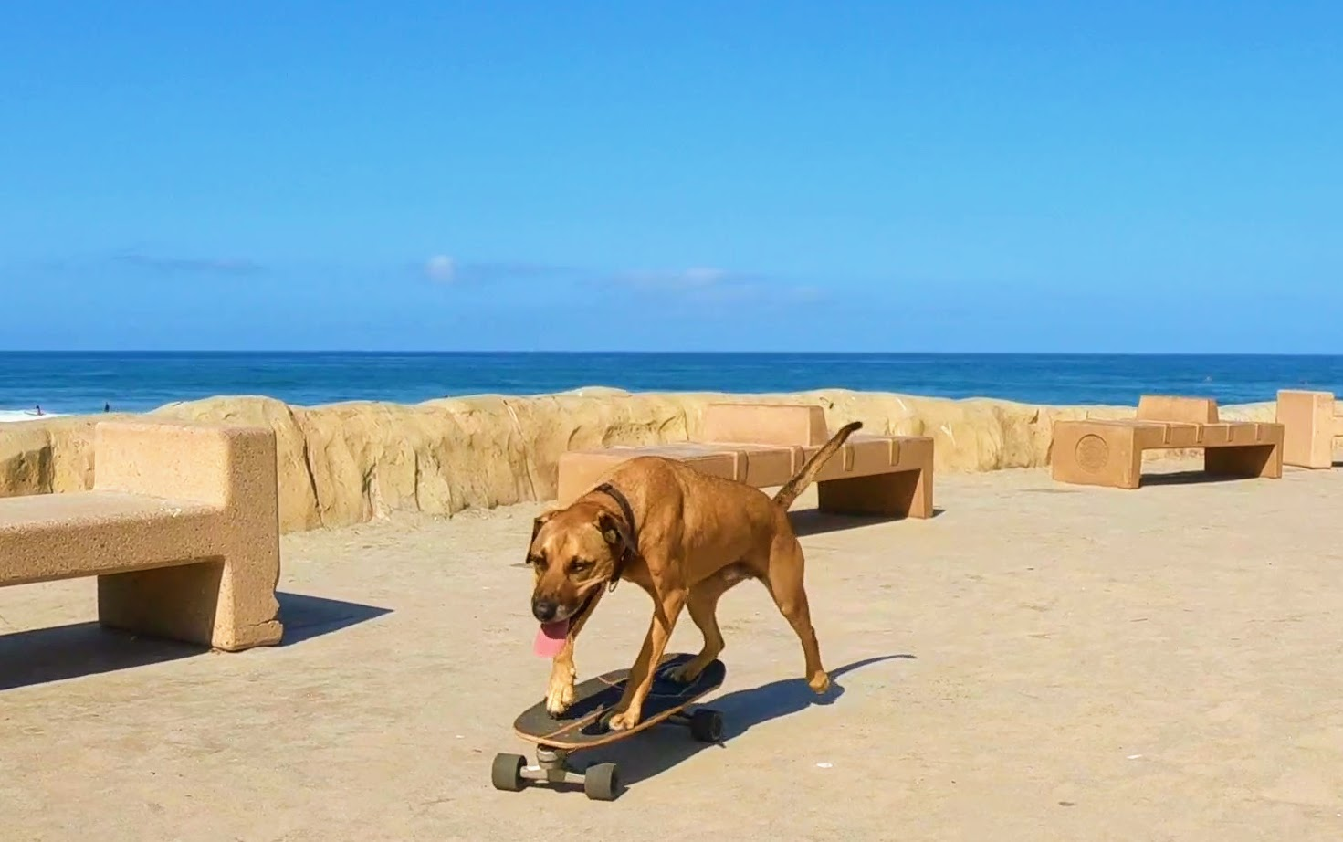 Bamboo - A skateboarding dog in Southern California